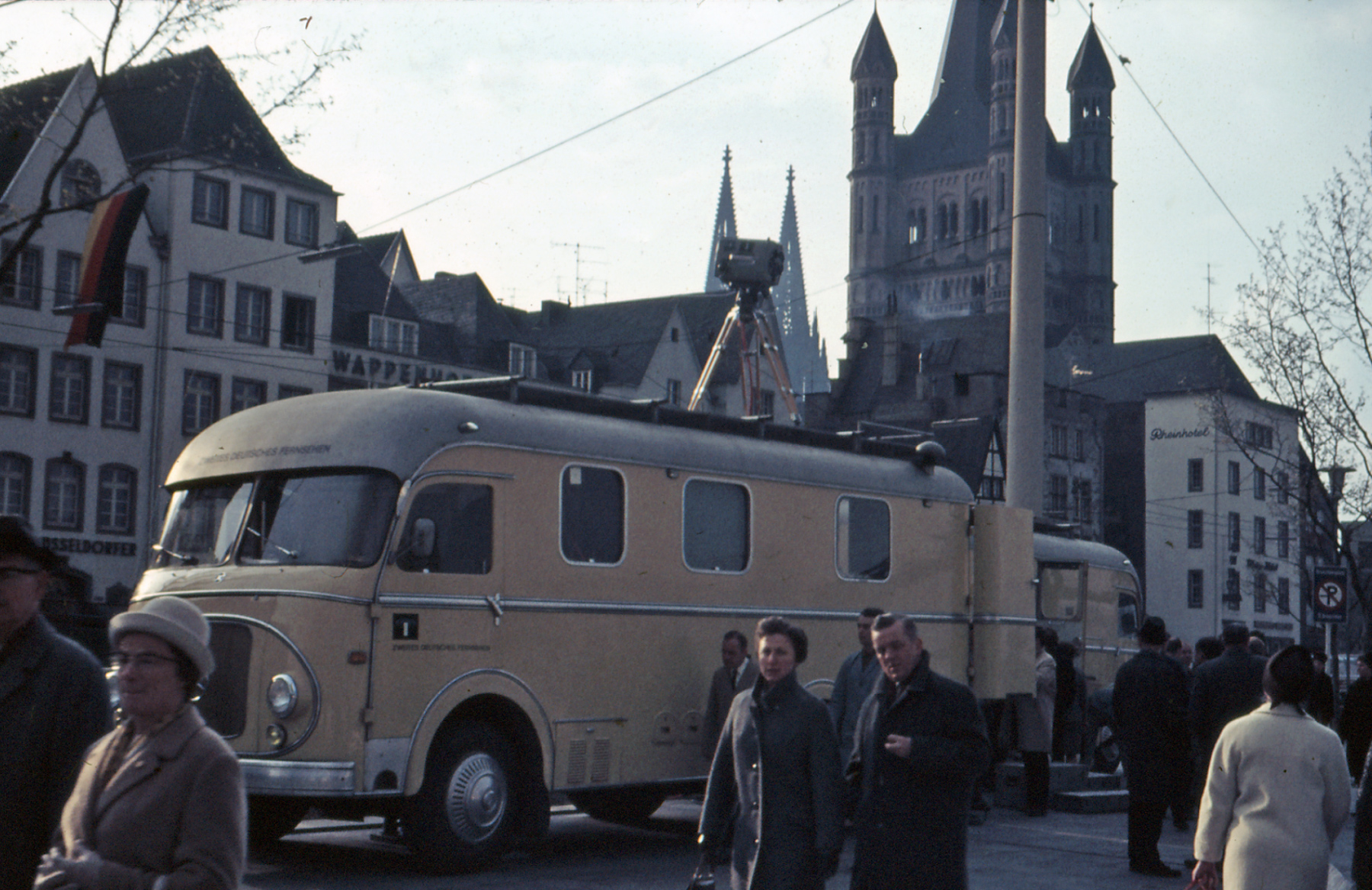 TV-Truck at the Funeral of Konrad Adenauer, Cologne, Germany